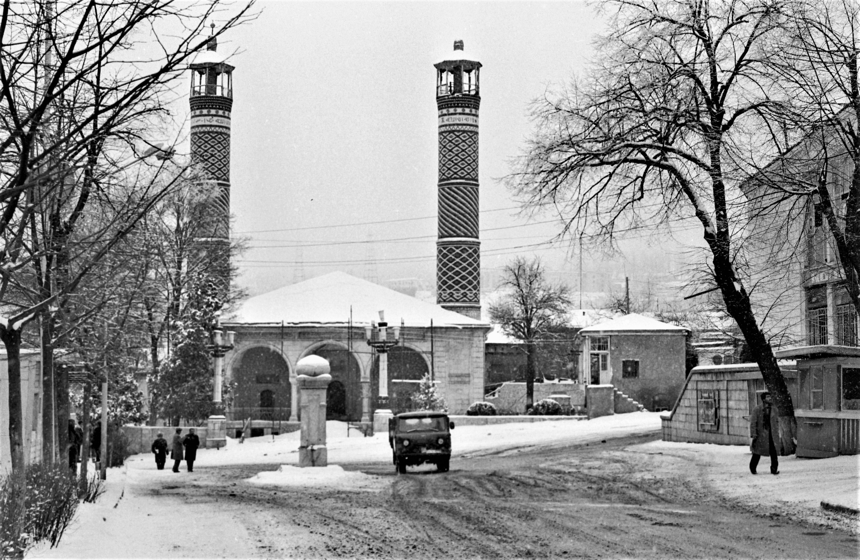 Shusha in February of 1992